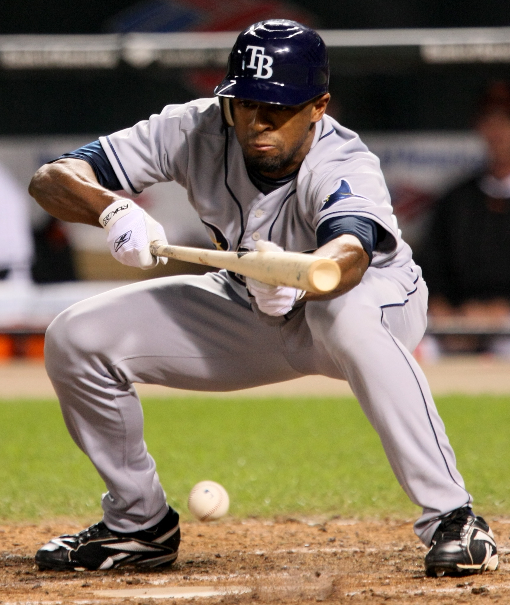 Fernando Perez of the Tampa Bay Rays attempts to lay down a bunt during a 2008 game at Camden Yards in Baltimore